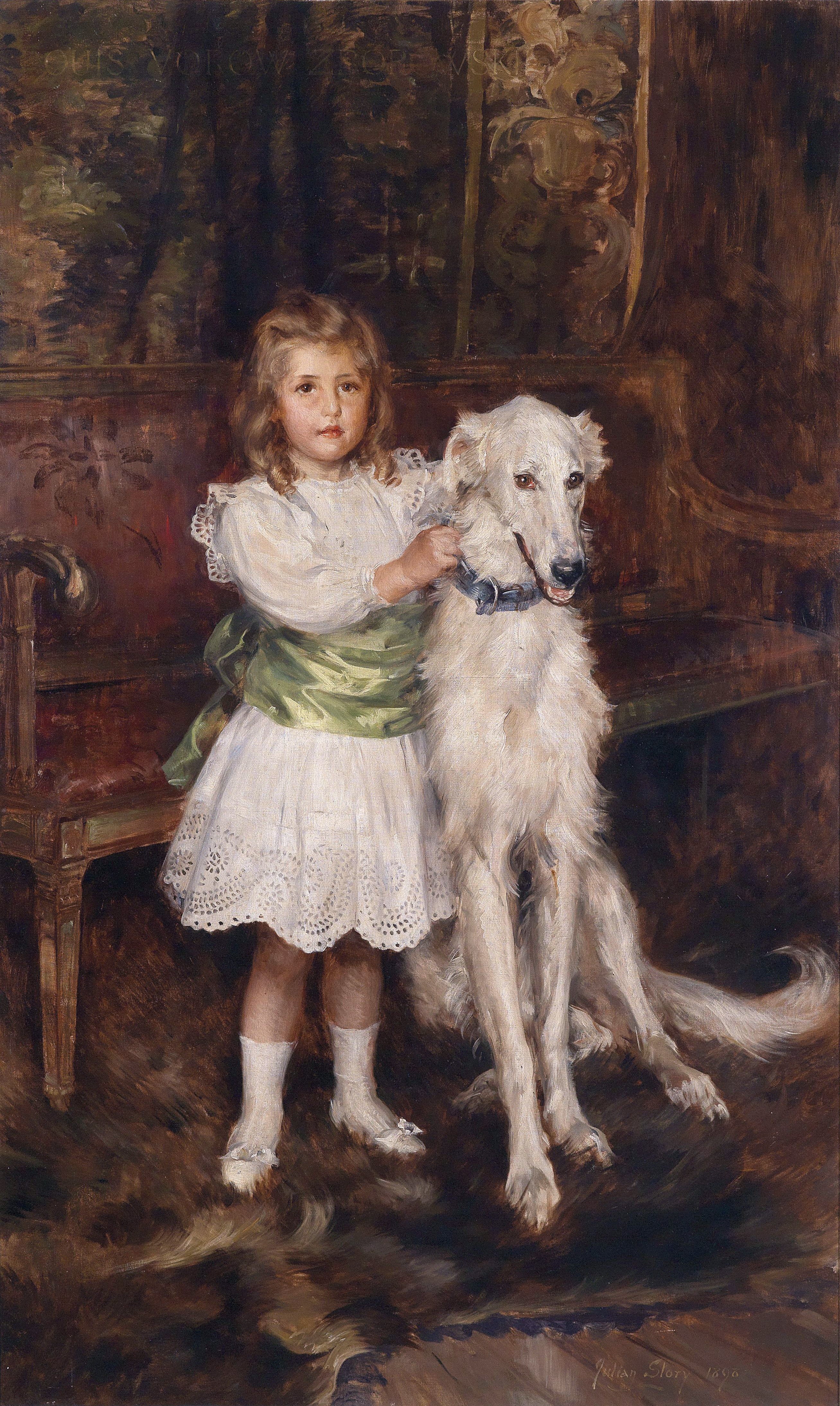 Louis Vorow Zborrowski signed l.r.: Julian Story 1898